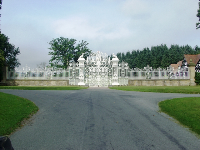 Chirk Castle Ornamental gateway